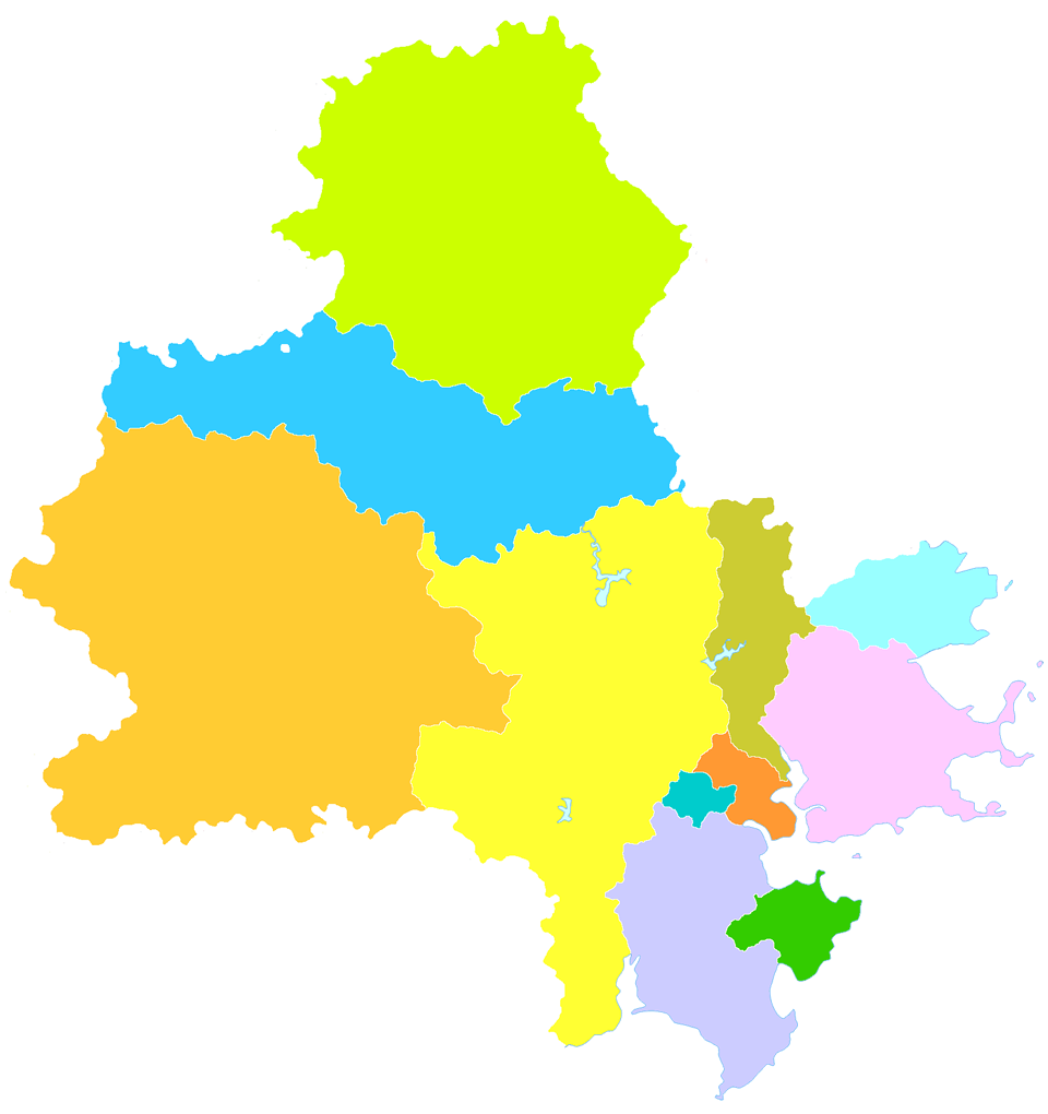 administrative division of Quanzhou City, Fujian, China